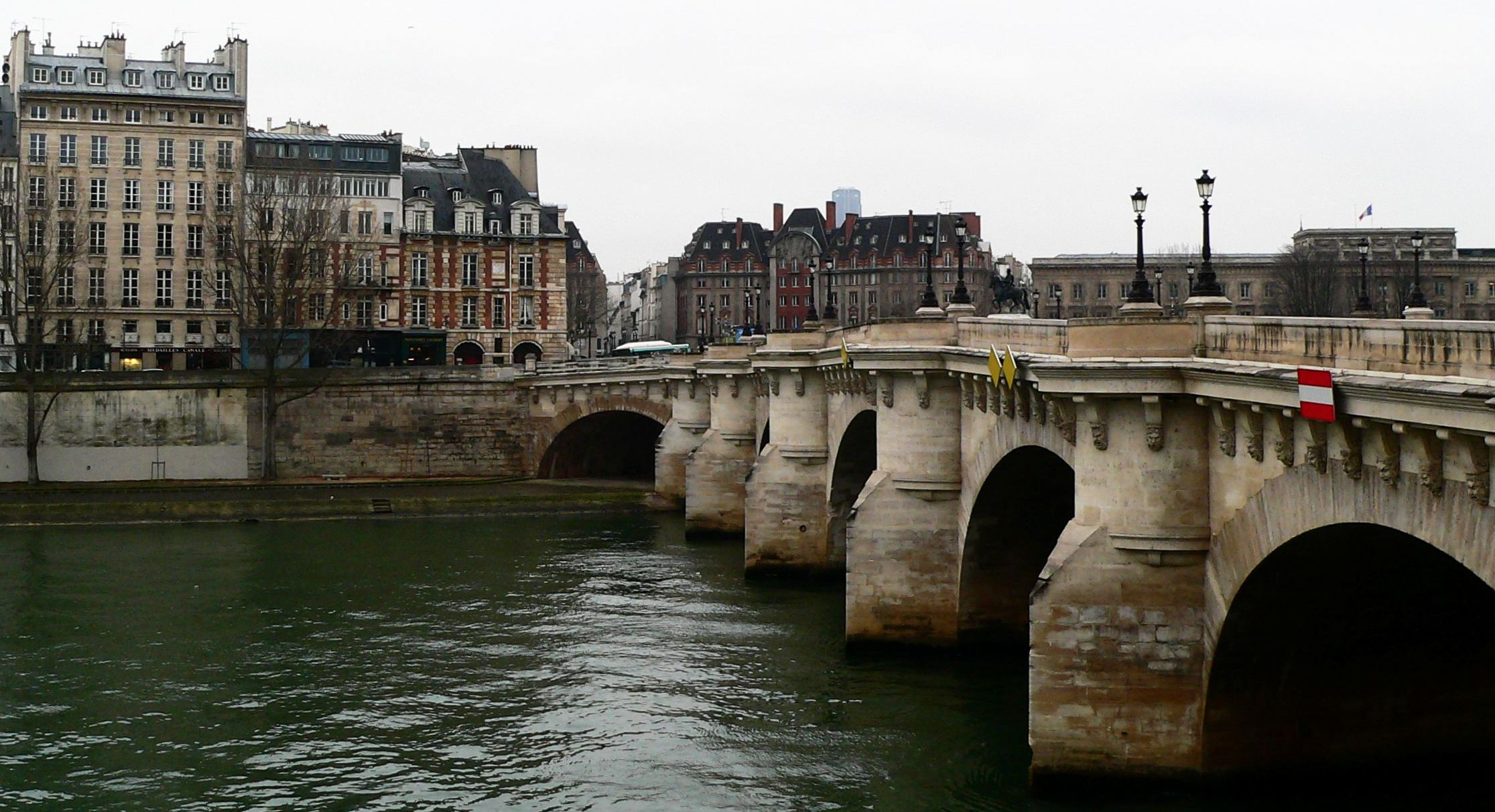 Pont Neuf Paris by Francis Hannaway